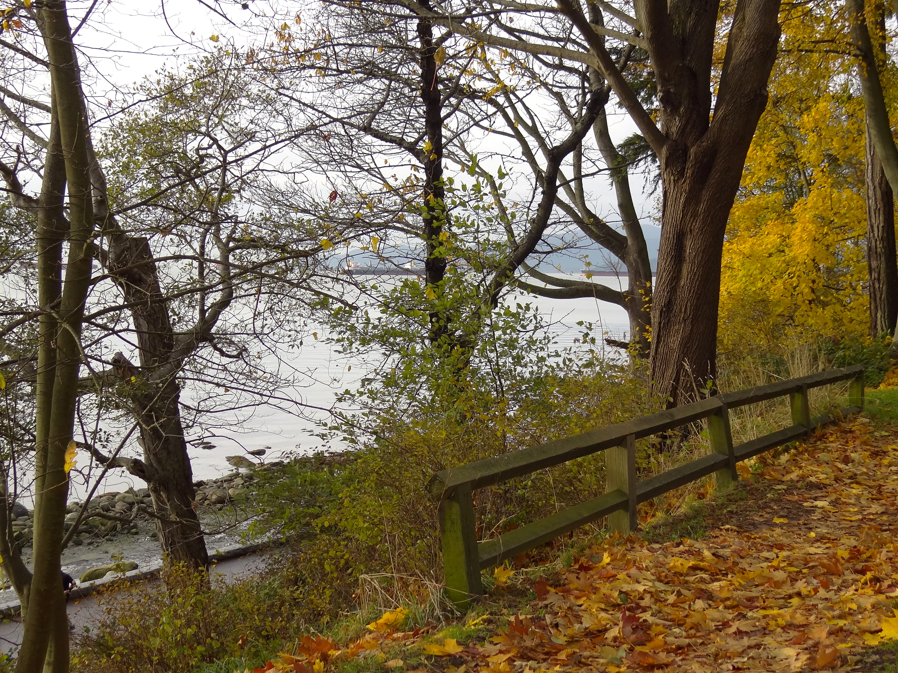 Autumn in Stanley Park - Vancouver, BC - Canada - 02